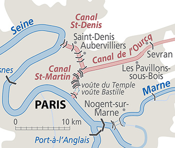 Location of the three Paris canals (zooming on the Saint-Martin and Saint-Denis)